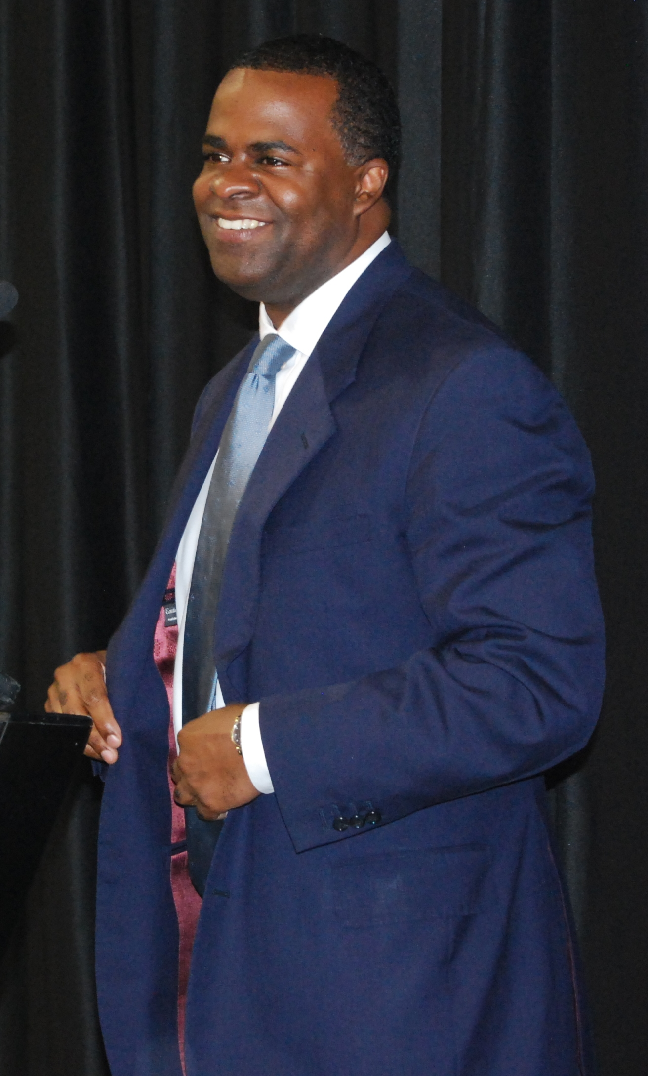 Kasim Reed as State Senator and candidate for Mayor of Atlanta